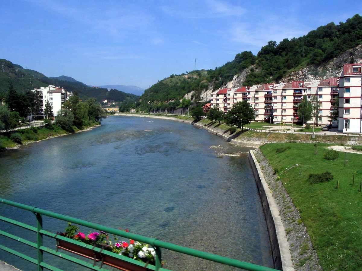 Konjic, view at Neretva from the bridge